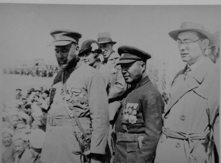 General Mehmut Muhiti